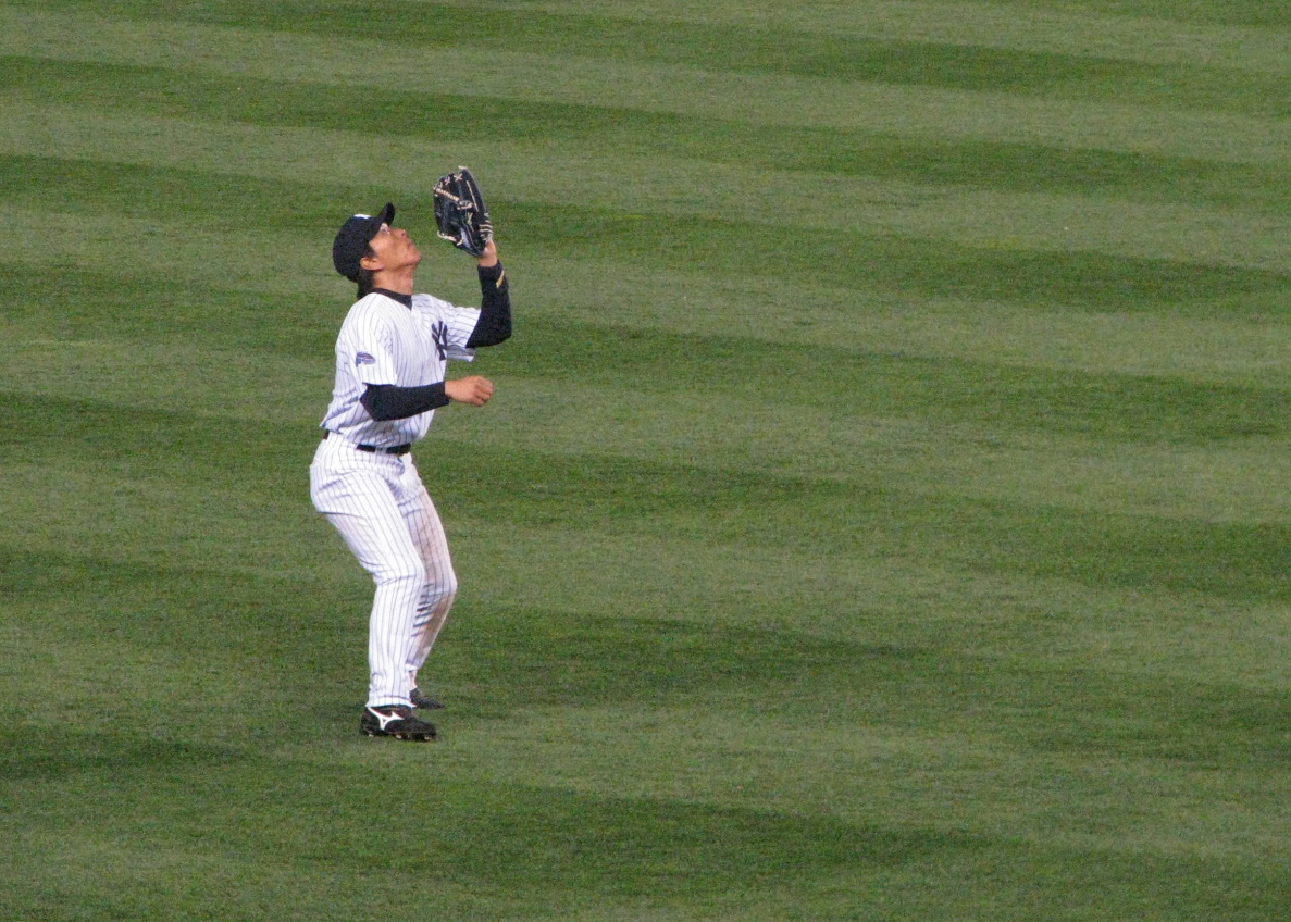 Hideki Matsui catching a fly ball during the Yankees game.